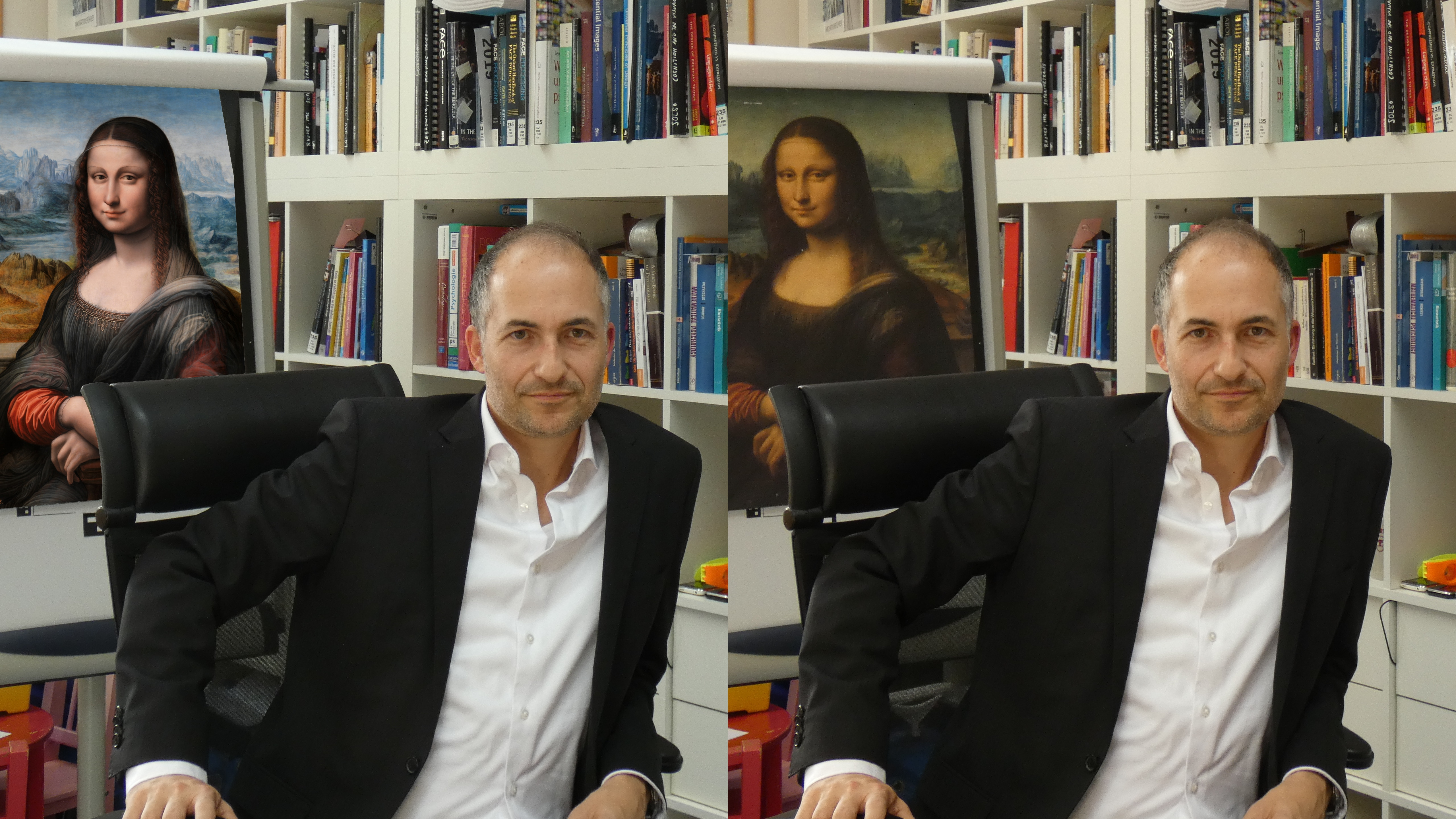 Claus-Christian Carbon at University Bamberg, in front of La Gioconda (left: Prado, right Louvre) Prof. Carbon is the author of a scientific paper, whose main point is, that the version of the Mona Lisa from the Prado and the version from the Louvre (both painted at the same time in da Vinci's studio) together form a 500 year old stereogram